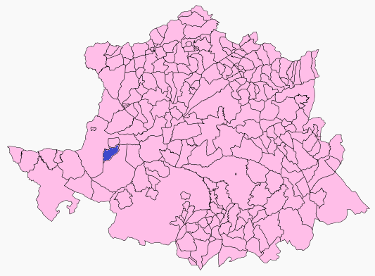 Villa del Rey